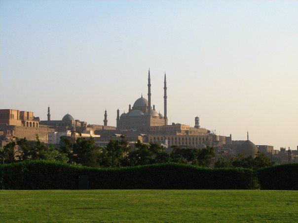 The Citadel with the Mosque of Mohamed Ali in the center.